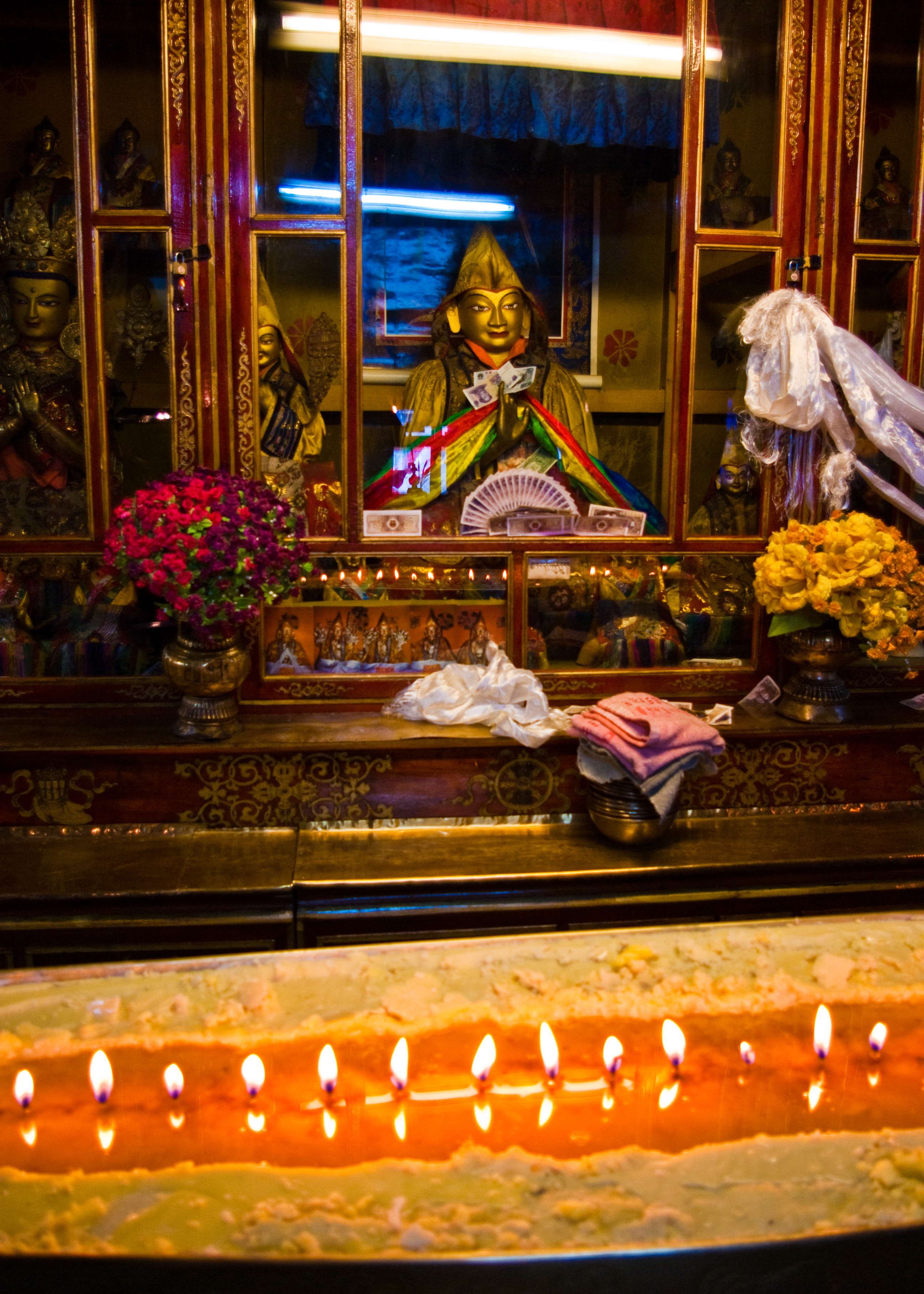 karmashar temple in Lhasa